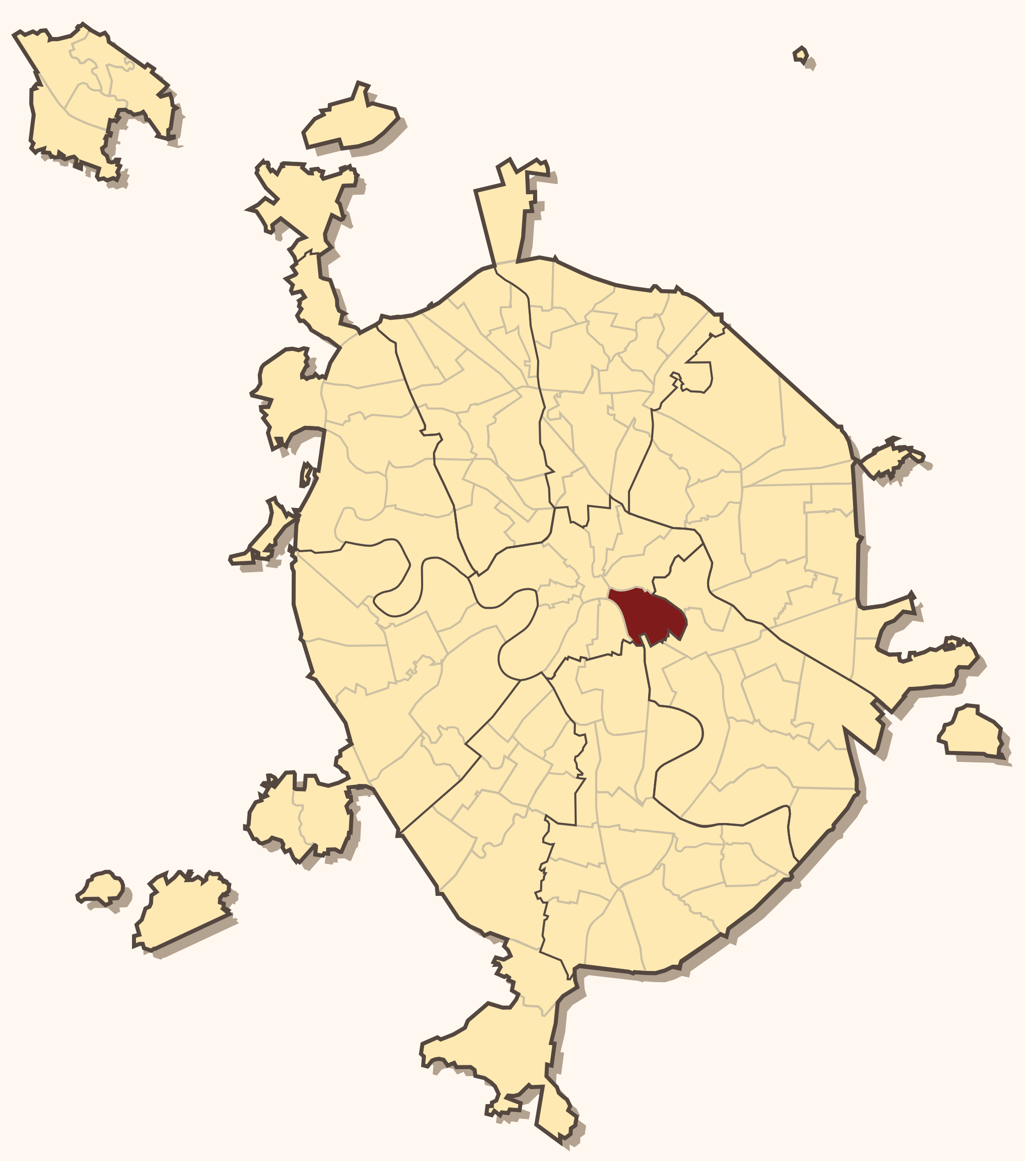 Moscow districts map